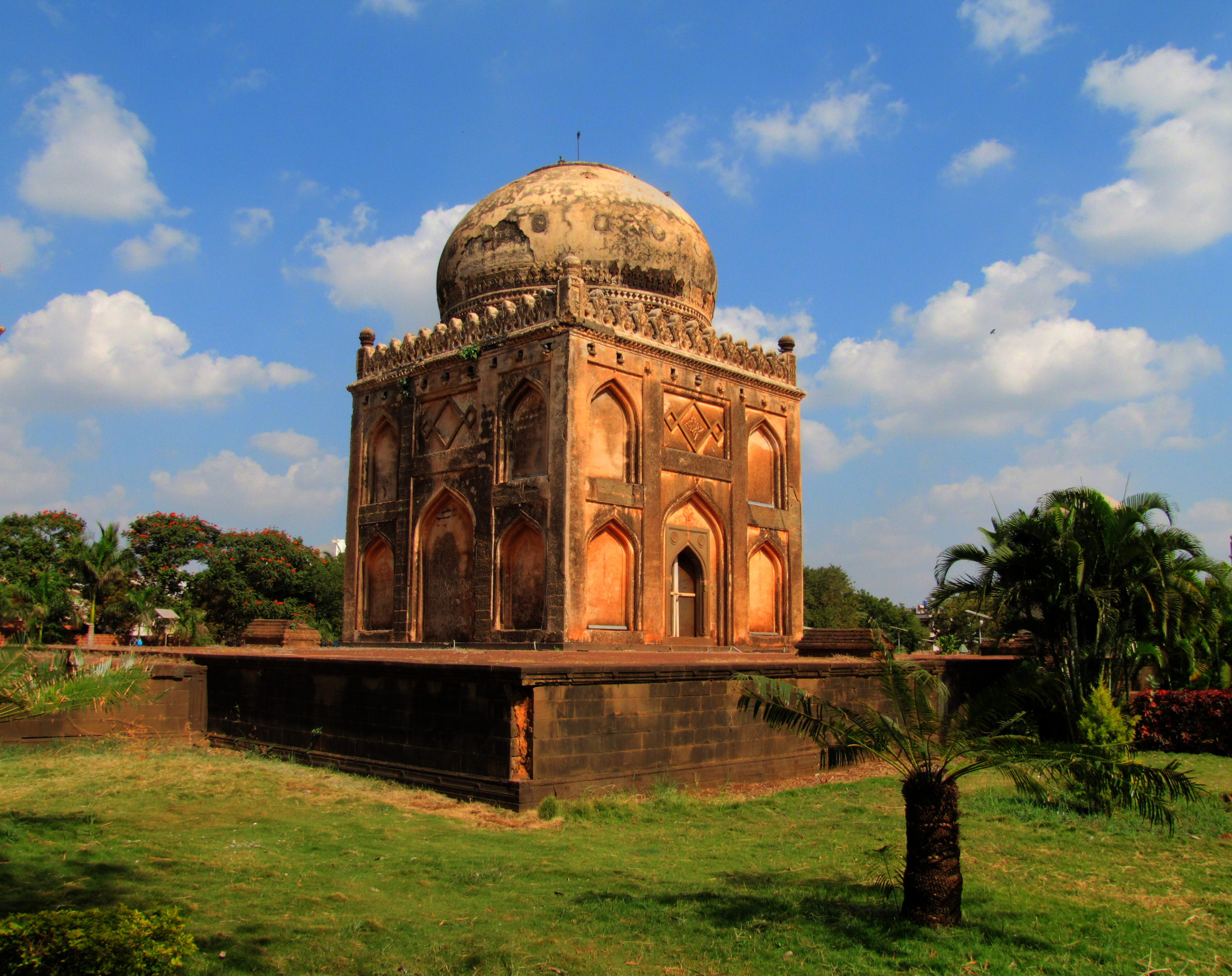 Tombs @ Barid Shahi Park, It is the park where the Baridi Sultans of the Bidar Sultanate have their final rest.